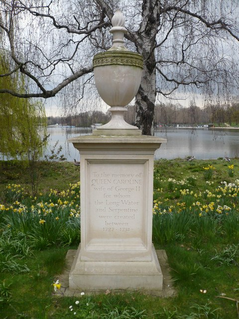 Memorial to Queen Caroline, wife of George II The Inscription reads "To the memory of QUEEN CAROLINE wife of George II for whom the Long Water and Serpentine were created between 1727 - 1731".